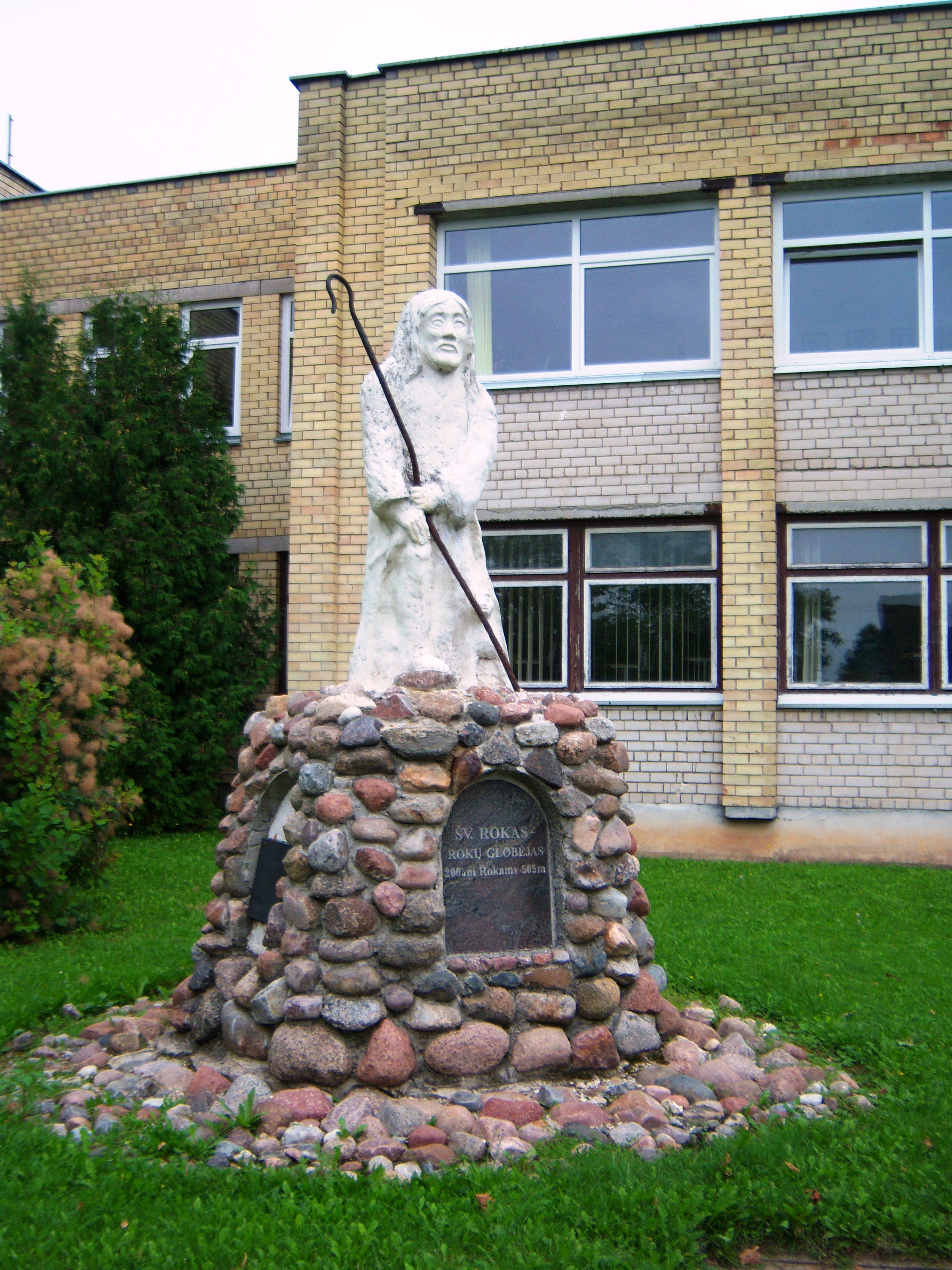 Saint Roch statue by Rokai secondary school, Kaunas, Lithuania